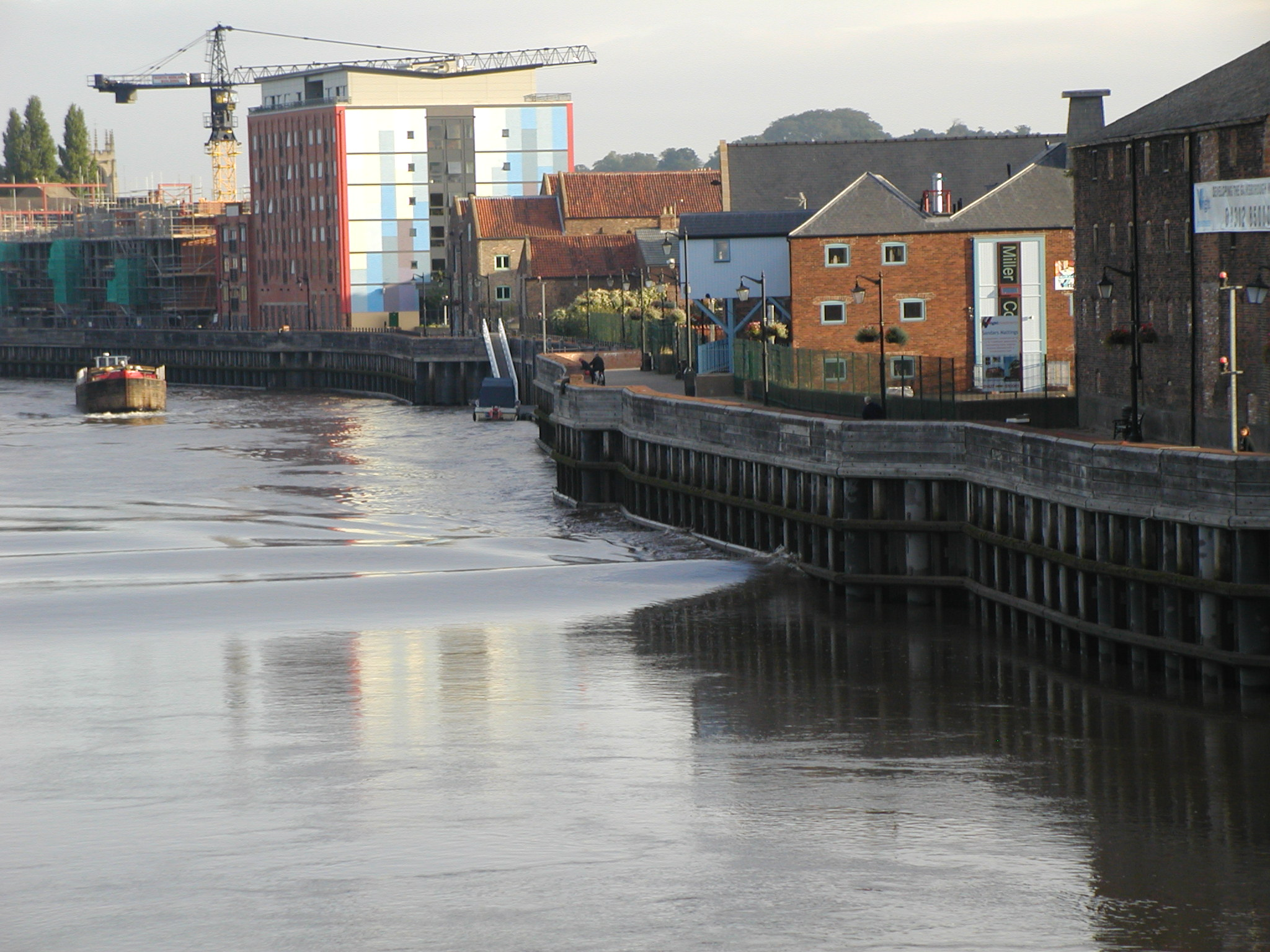 Trent Aegir Gainsborough 20 Sept 2005